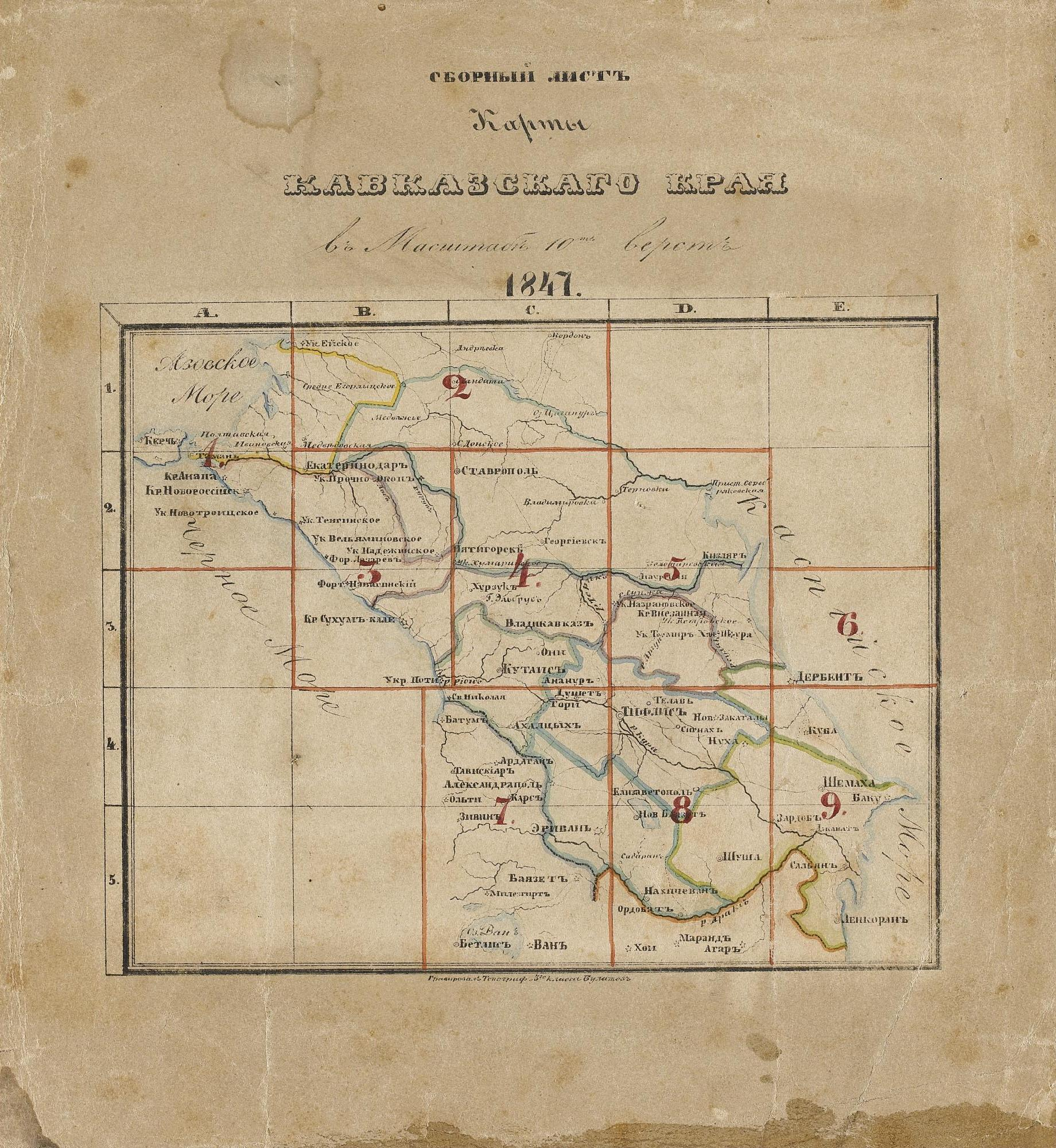 Caucasus map -1847- (10 verst)